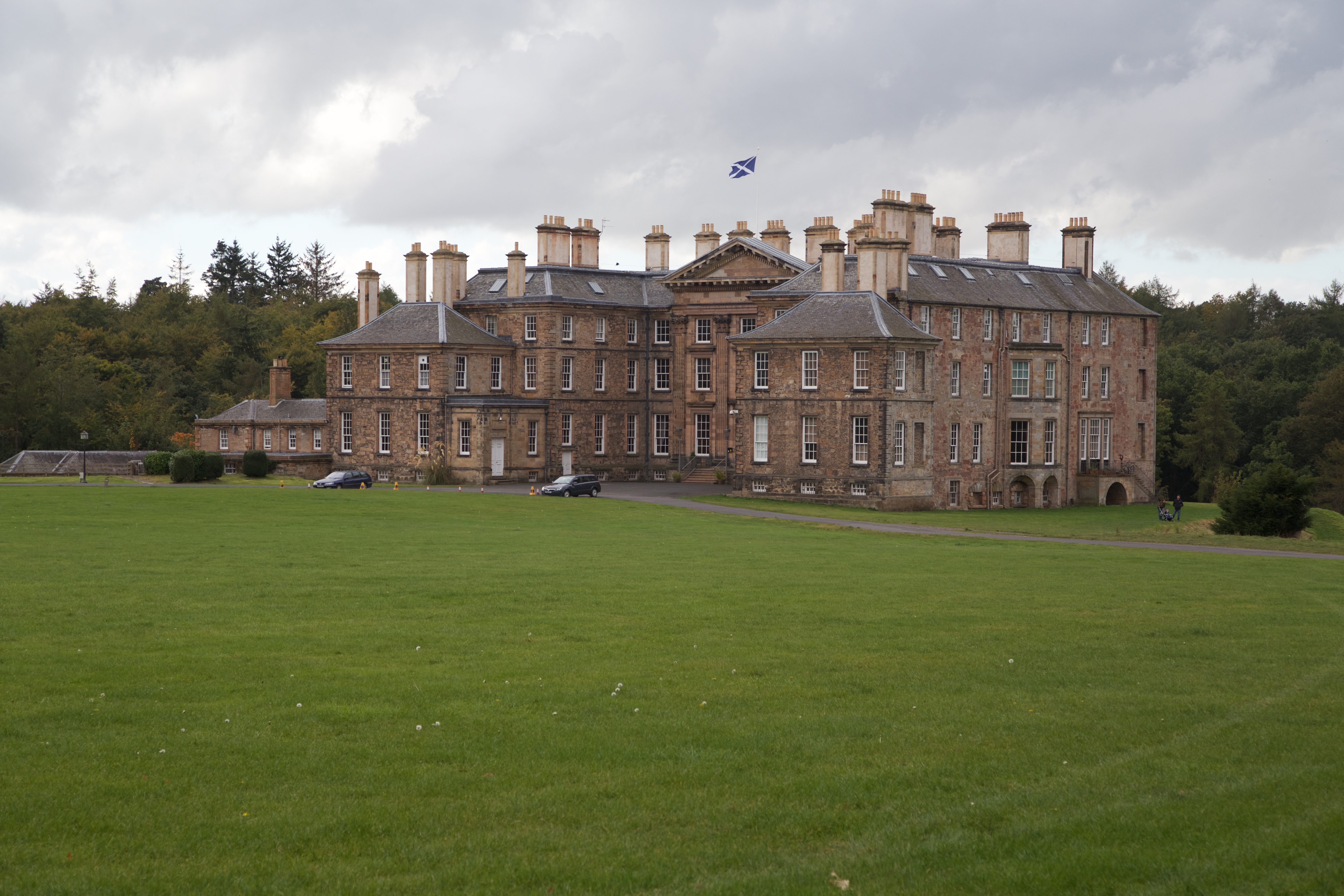 Dalkeith House